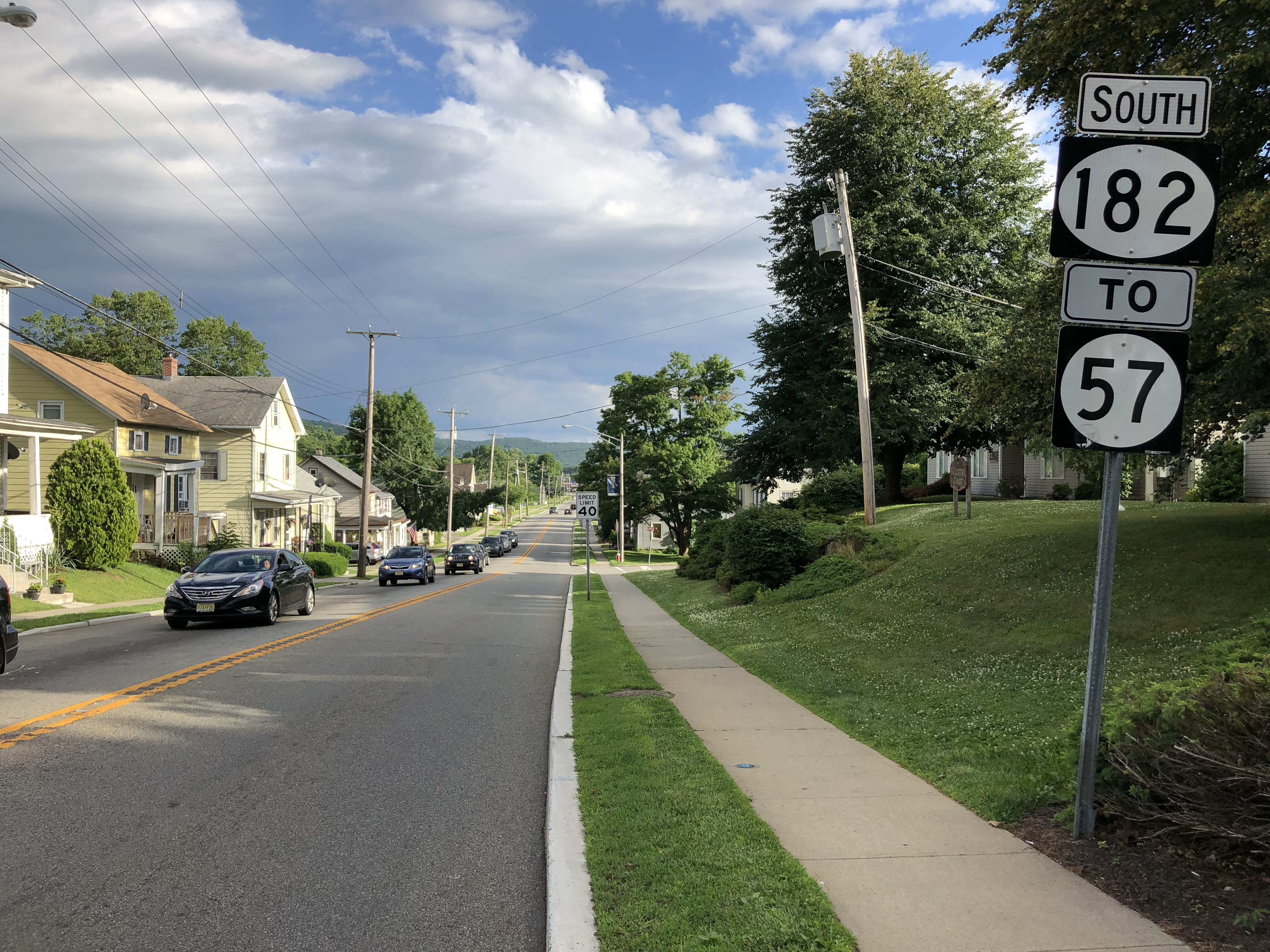 View south along New Jersey State Route 182 and Warren County Route 517 (Mountain Avenue) just south of U.S. Route 46 (Main Street) in Hackettstown, Warren County, New Jersey